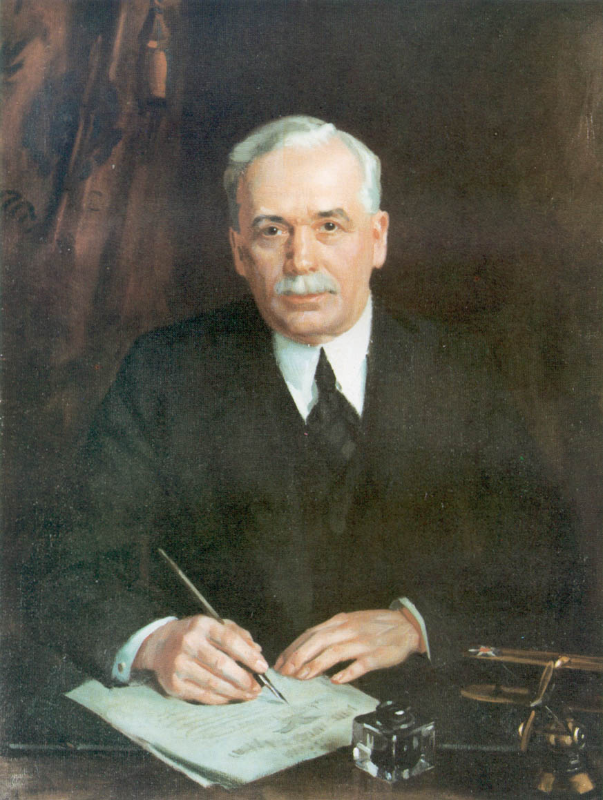 James William Good, 50th United States Secretary of War. Oil on canvas, 35¼" x 27¼".